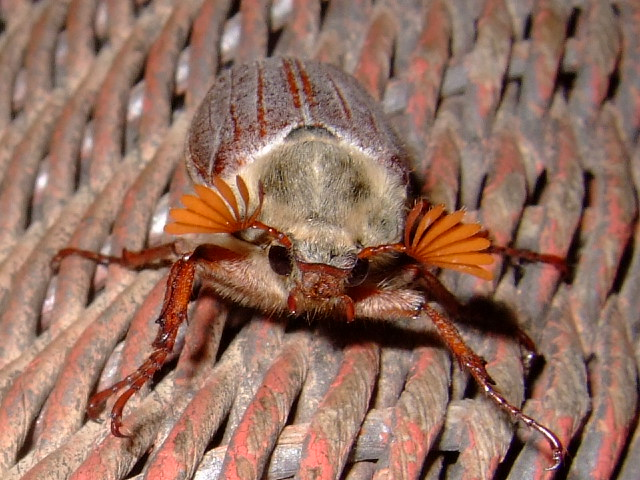 Close up of a male cockchafer, showing the seven "leaves" on the antennae.